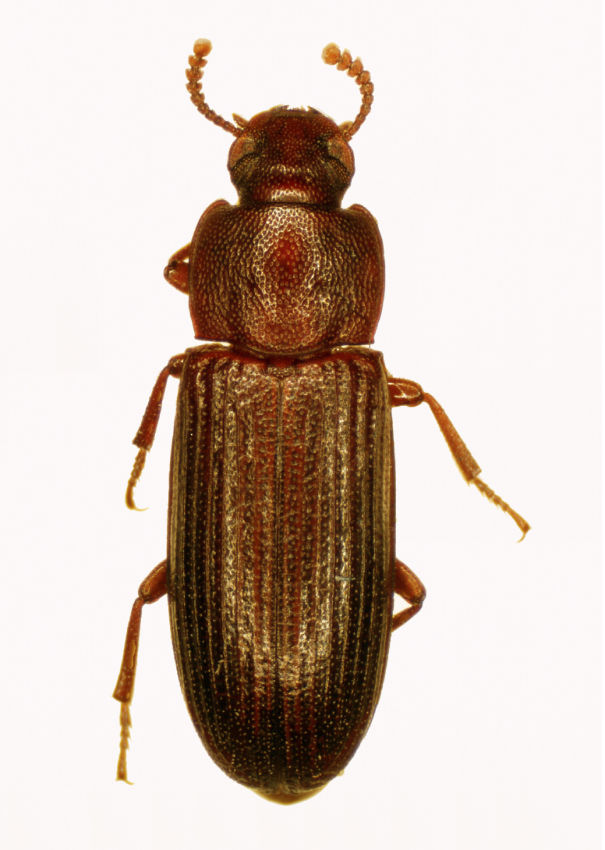 Tribolium destructor (False black flour beetles) are pests affecting dried material of animal and plant origin, especially cereal grain and products.